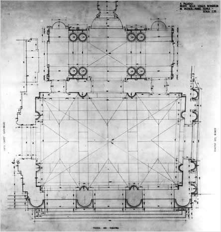 Palazzo del Capitanio in Vicenza, by Andrea Palladio.